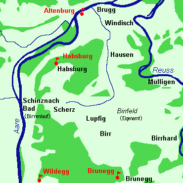 Eigenamt (today's Birrfeld) in the Swiss cantone of Aargau - the Habsburgs' lands in the 11th to 13th century.